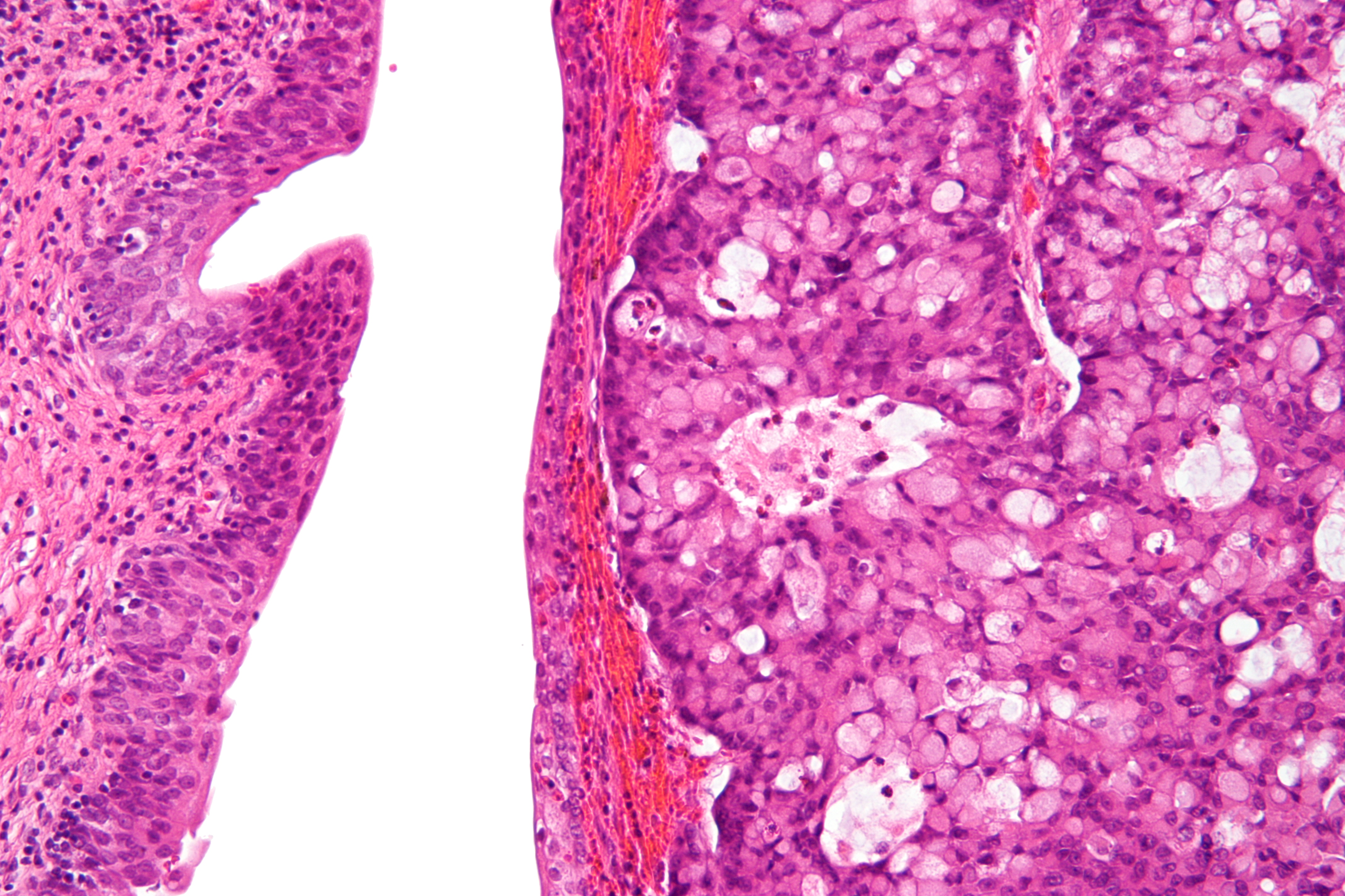 High magnification micrograph of a urachal carcinoma. H&E stain. The images show a carcinoma (right of image) and non-malignant urothelium (left of image). Related images Very low mag. Low mag. Intermed mag. High mag. Very high mag.